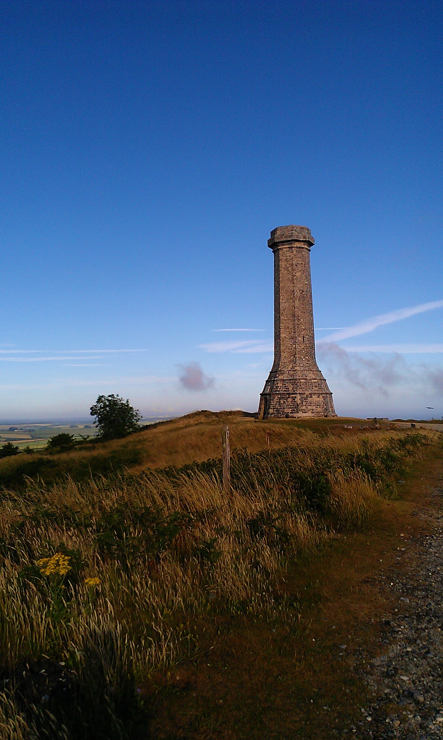 The Hardy Monument in Dorset, South-East England.